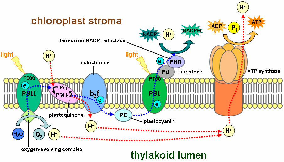 Light-dependent reactions of photosynthesis at the thylakoid membrane. It shows noncyclic phosphorylation (noncyclic electron transport) (Created using Powerpoint, based on: Taiz and Zeiger, Plant Physiology, 4th edition, ISBN 0-87893-856-7)